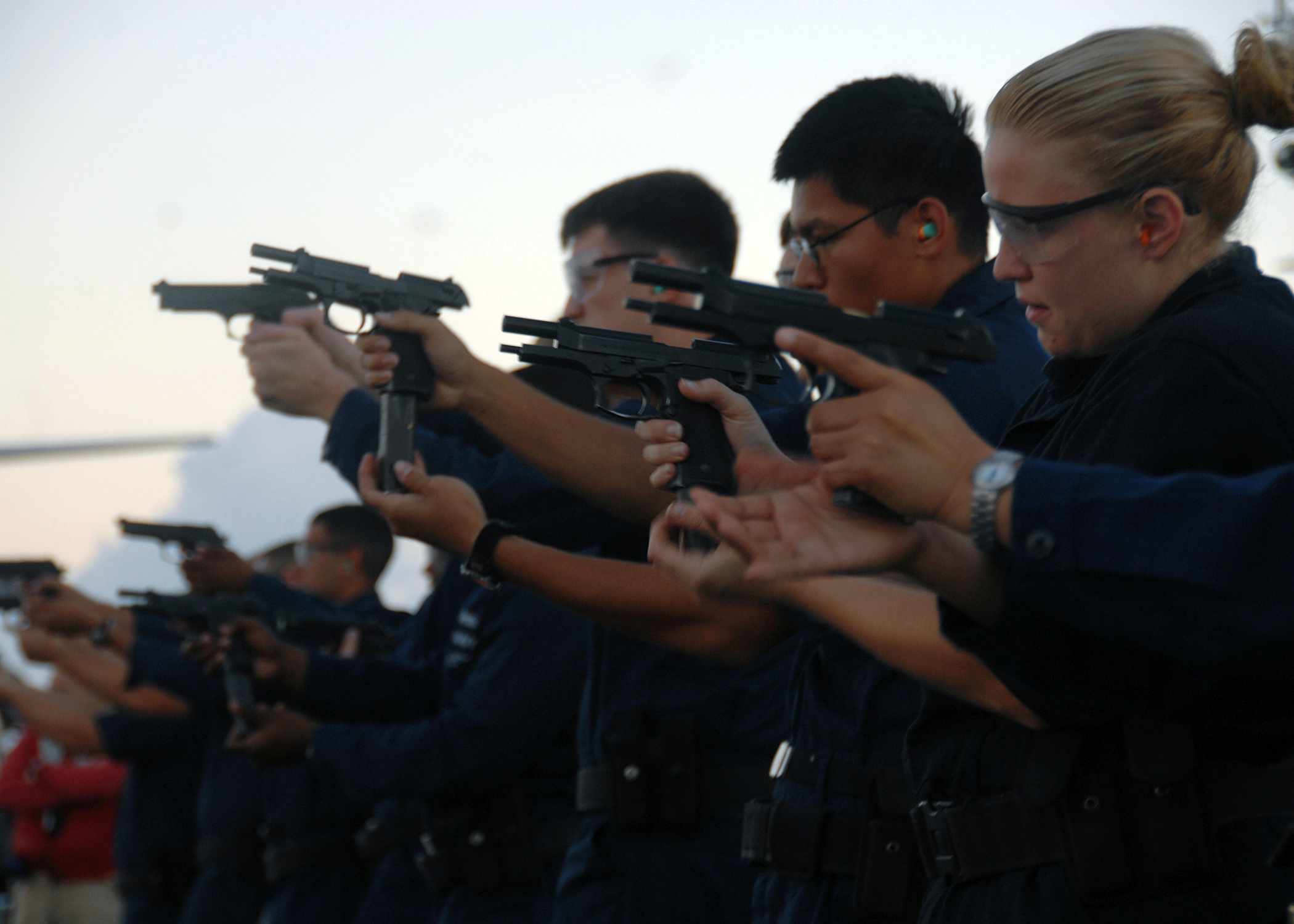 PACIFIC OCEAN (July 13, 2008) Sailors aboard the amphibious assault ship USS Bonhomme Richard (LHD 6) (BHR) conduct small arms qualification on the ship's flight deck. BHR is participating in Rim of Pacific (RIMPAC) 2008. RIMPAC is the world's largest multinational exercise and is scheduled biennially by the U.S. Pacific Fleet. Participants include the United States, Australia, Canada, Chile, Japan, the Netherlands, Peru, Republic of Korea, Singapore, and the United Kingdom. U.S. Navy photo by Mass Communication Specialist 3rd Class Jeffery J. Gabriel Jr. (Released)